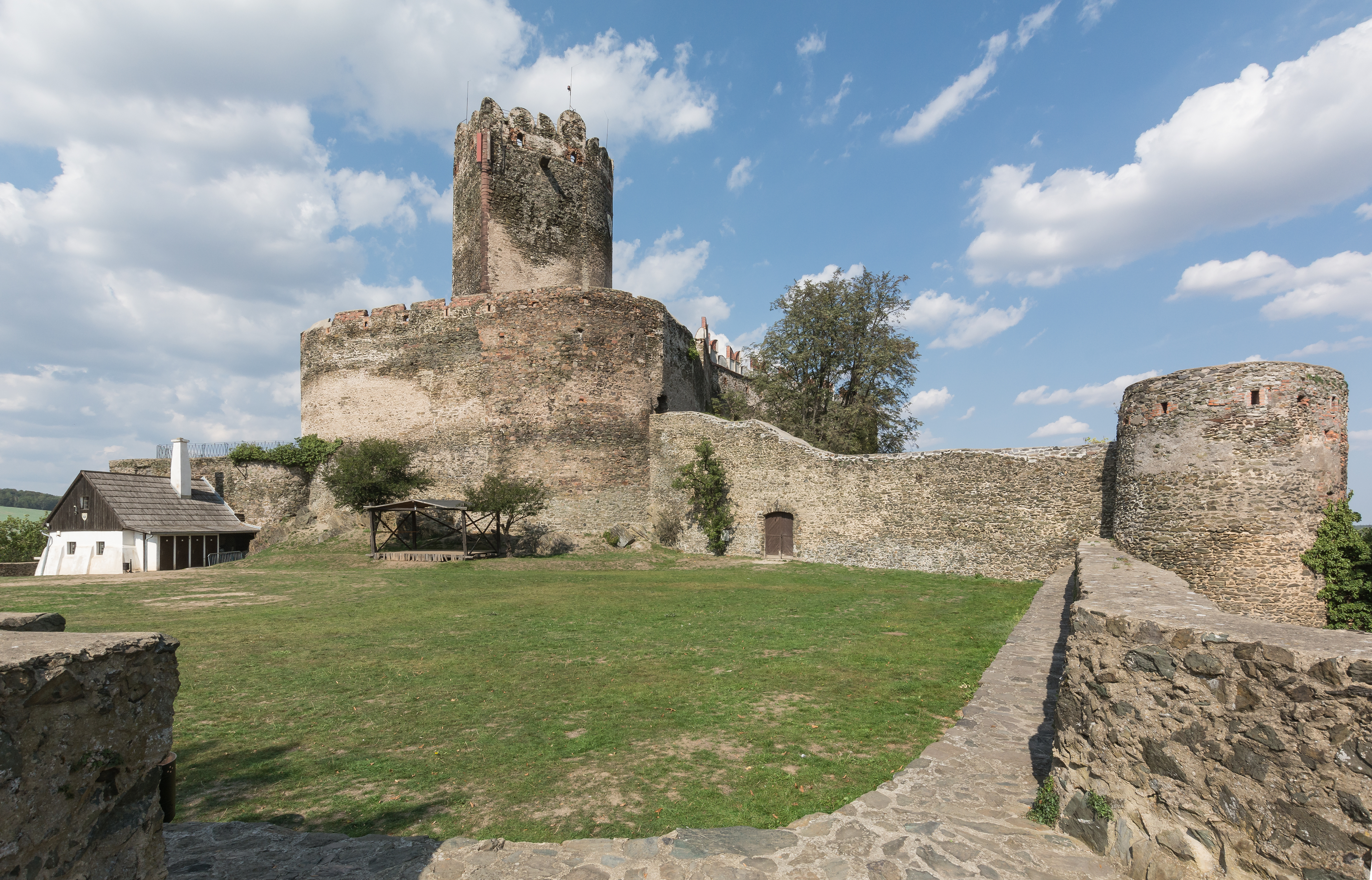 Bolków Castle Wikidata has entry Q891409 with data related to this item.